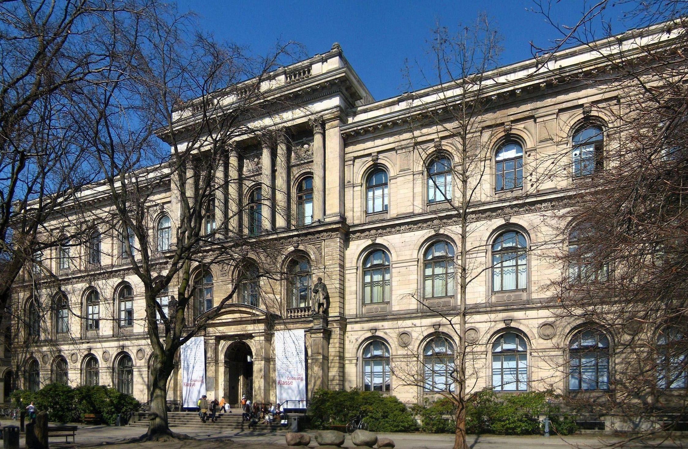 The Museum of Natural History at Invalidenstraße No. 43 in Berlin-Mitte. It was built from 1883 to 1889 to a design by August Tiede. Together with the neighboring buildings of the former Agricultural University and the former Geologische Landesandstalt and Bergakademie (now seat of the German Federal Ministry of Transportation) it has been designated as a historic landmark.